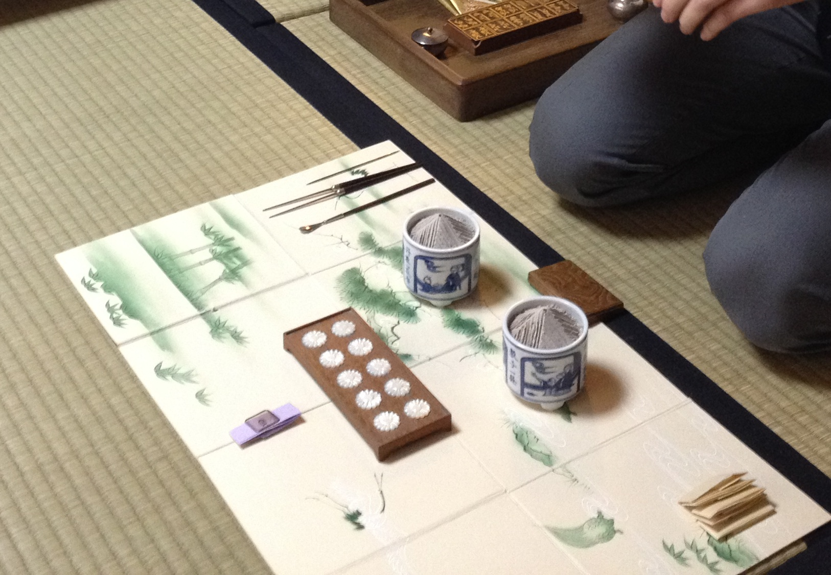 A game of Ayameko (菖蒲香) being prepared, part of the Japanese incense ceremony.